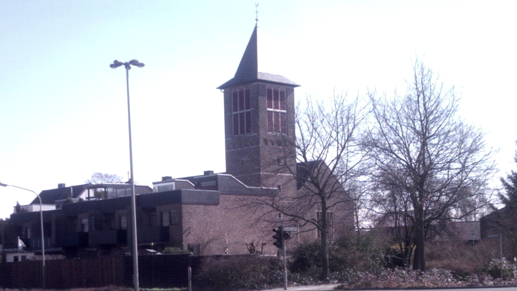 Saint Mary Church (Roman Catholic) in Hamm, Viersen, Germany